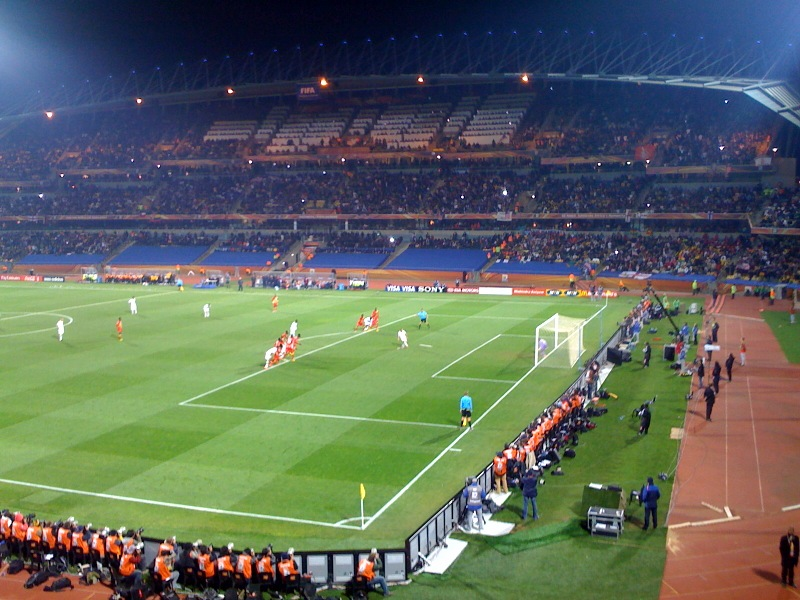 Landon Donovan scores in the Round of 16 game between USA and Ghana at FIFA World Cup 2010, 26 June 2010, Royal Bafokeng Stadium, Rustenburg